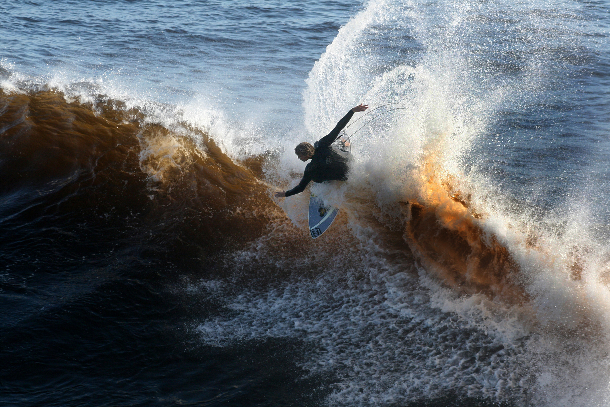 A California surfer. Santa Cruz and the surrounding Northern California coastline is a popular surfing destination; however, the year-round low temperature of the ocean in that region (averaging 57ºF/14ºC) necessitates the use of wetsuits.